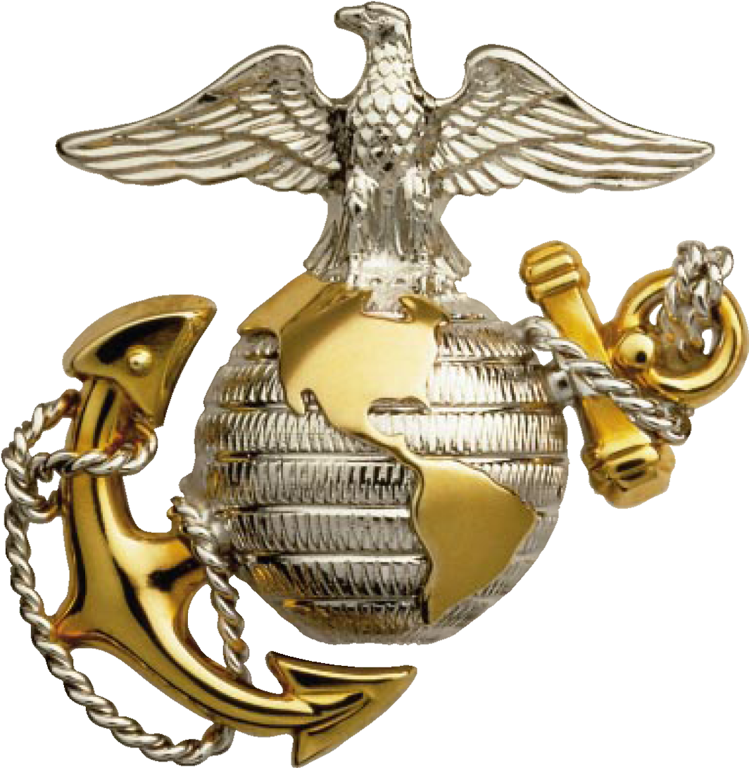 Official emblem of Officers in the United States Marine Corps - the Eagle, Globe, and Anchor.